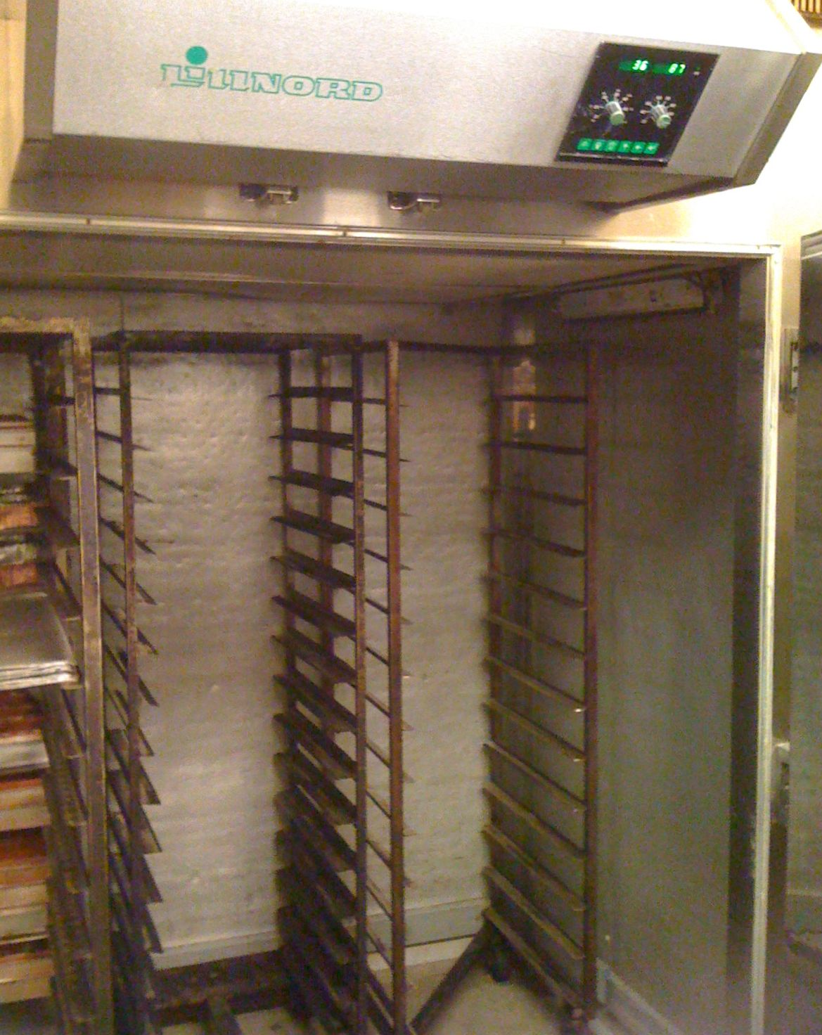 Dough proofer